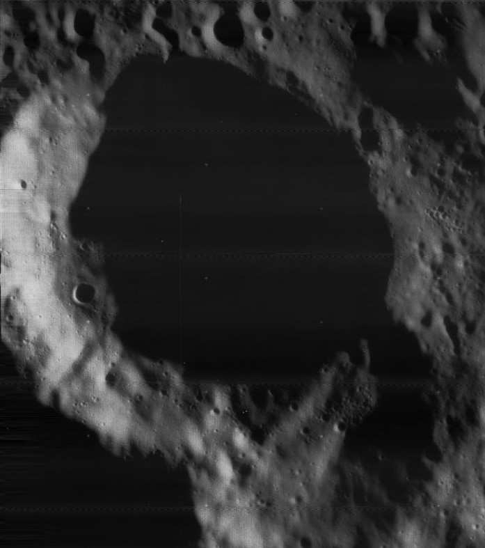 Cysatus crater, on the moon.